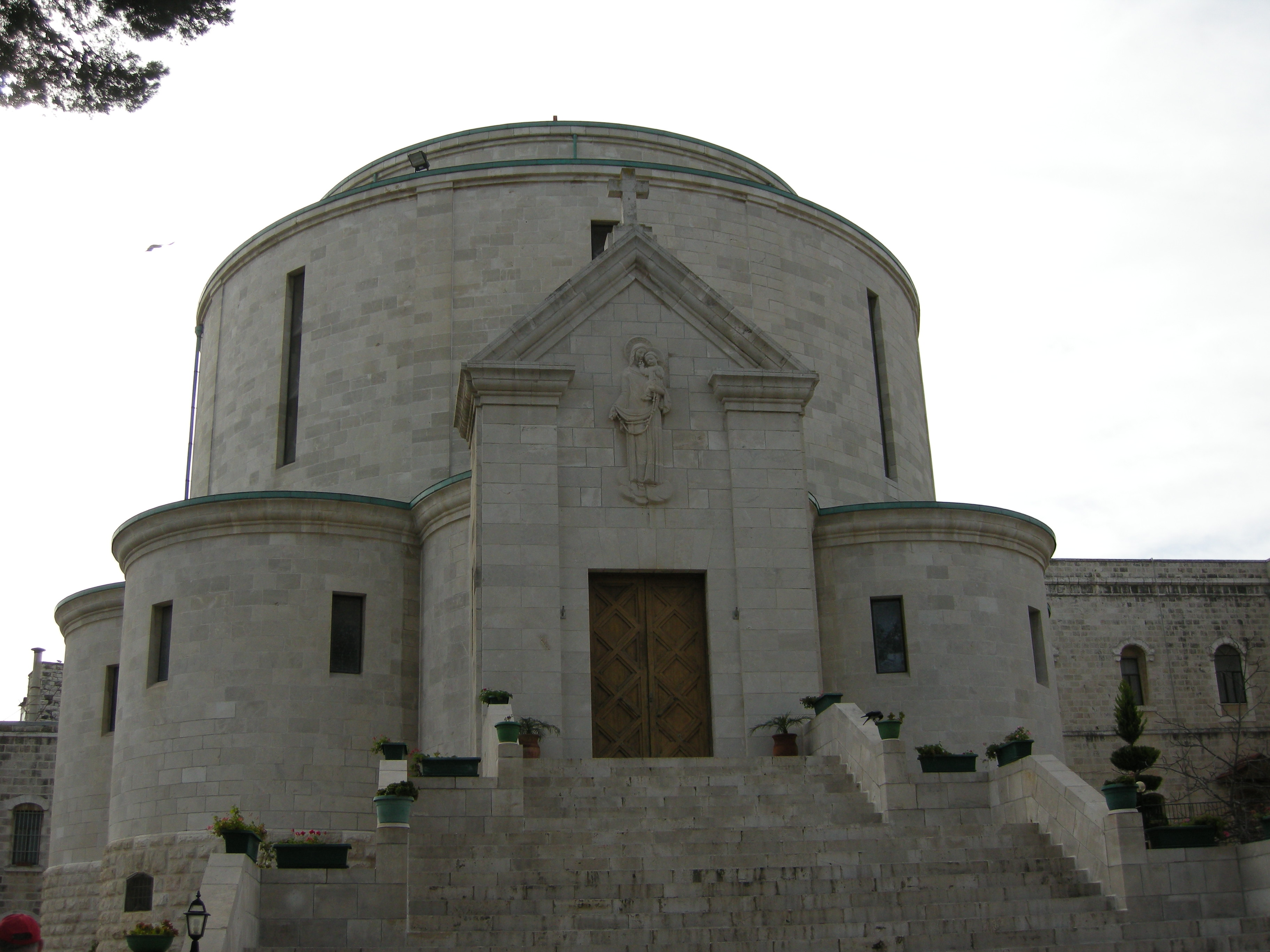 Visit in the Convent of the Sisters of the Rosary in Jerusalem, Agron street